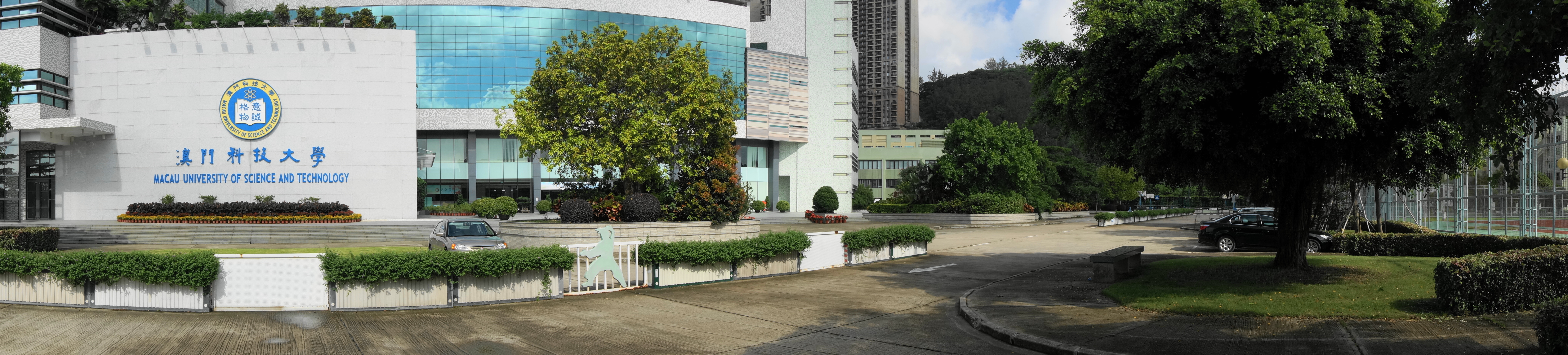 In the yard of MUST, library sits across an aisle from stadium.